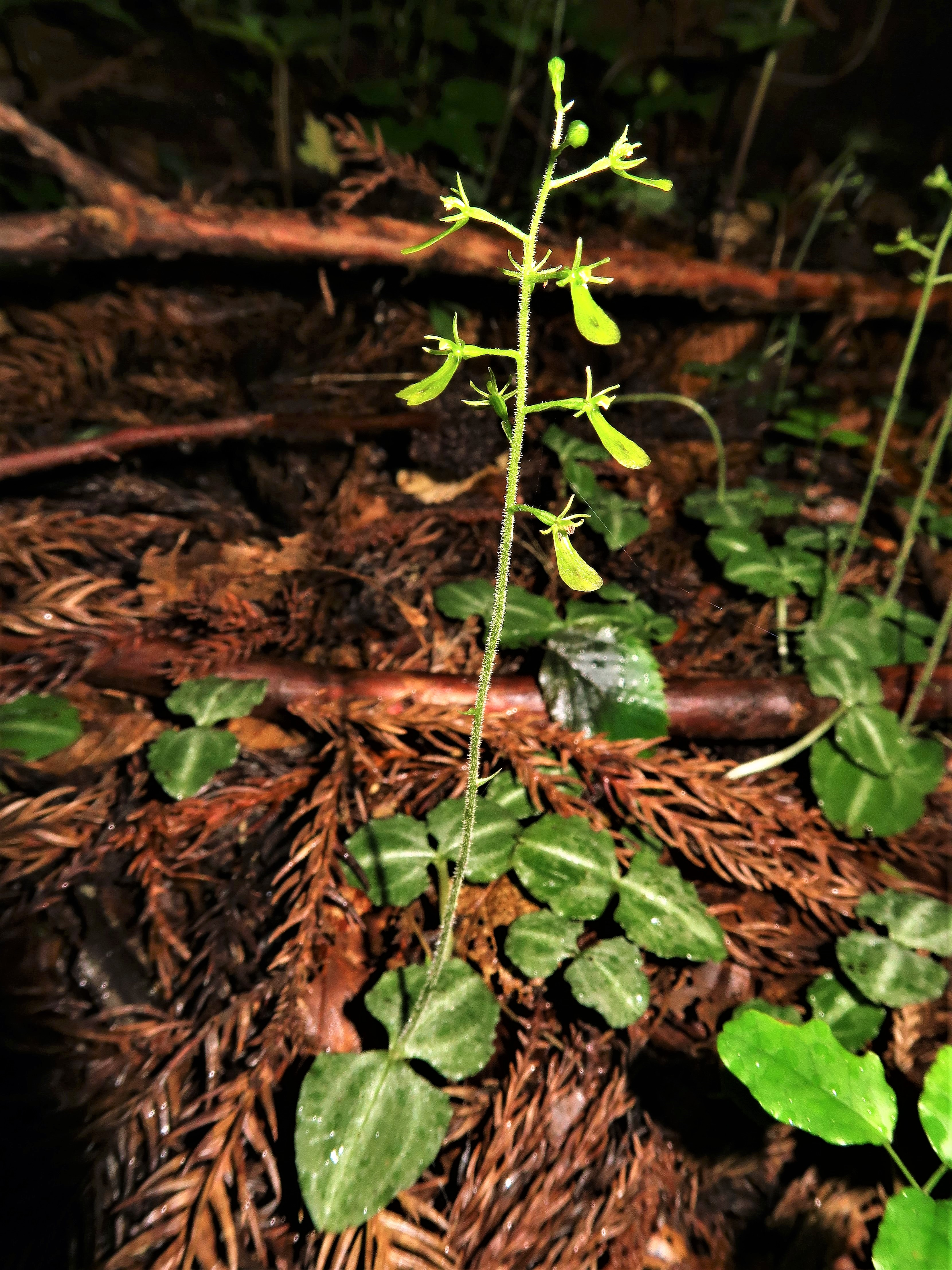 Neottia makinoana, North area, Ibaraki pref., Japan